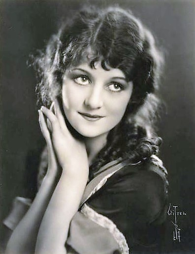 Alice Day